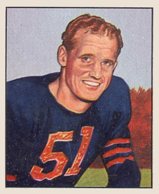 Here is a 1950 Bowman Football card of #138 Ken Kavanaugh of the Chicago Bears. PD-not-renewed on all vintage Bowman cards.